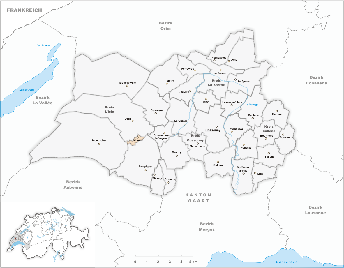 Municipality Mauraz